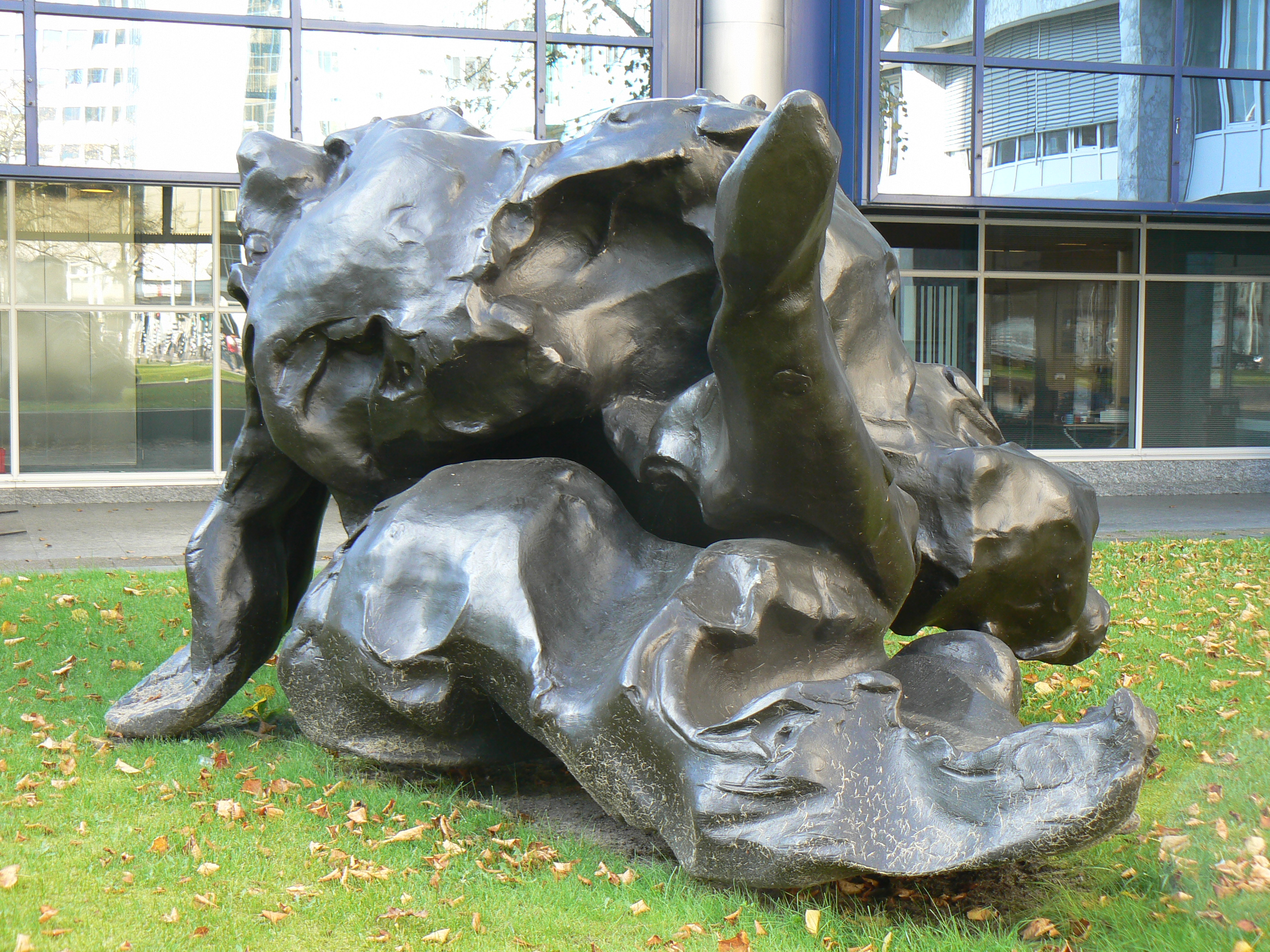 sculpture Reclining Figure in Rotterdam/The Netherlands